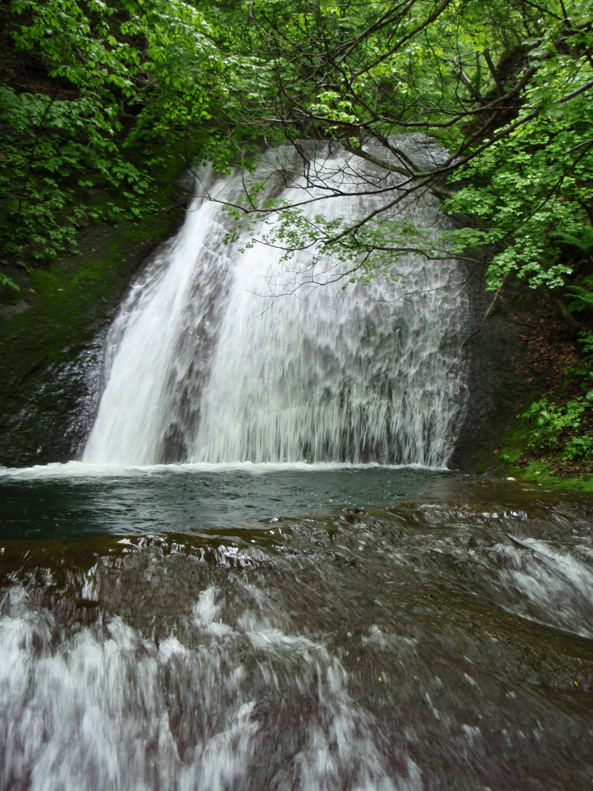 Otome waterfall, Teine-ku, Sapporo, Hokkaido, Japan.